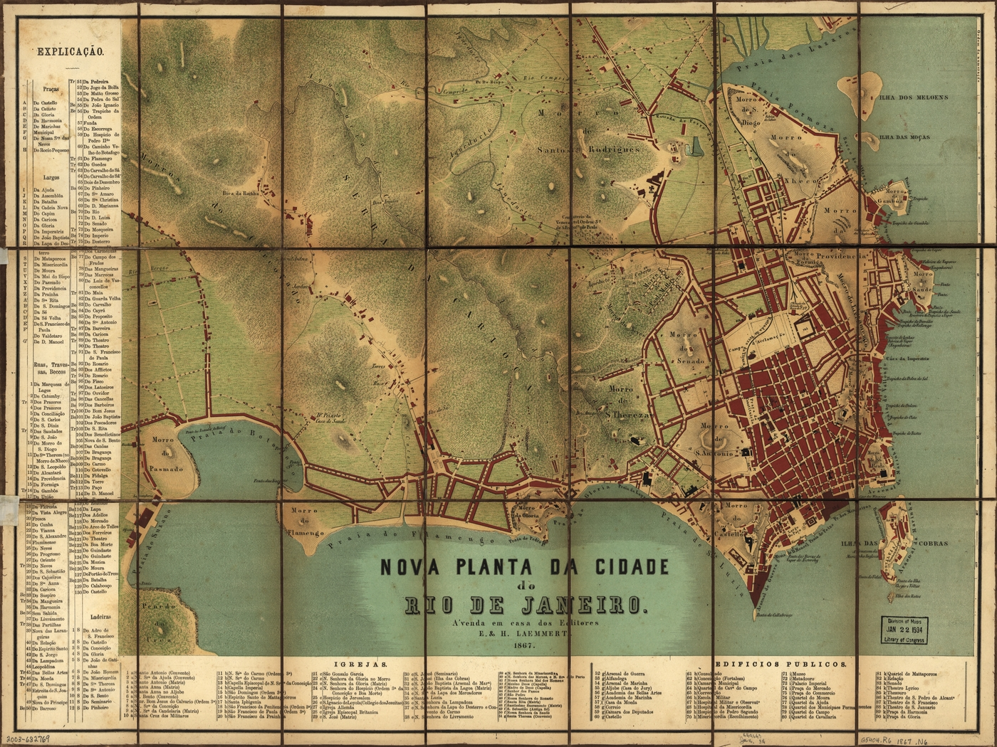 Map of the city of Rio de Janeiro published in 1867.